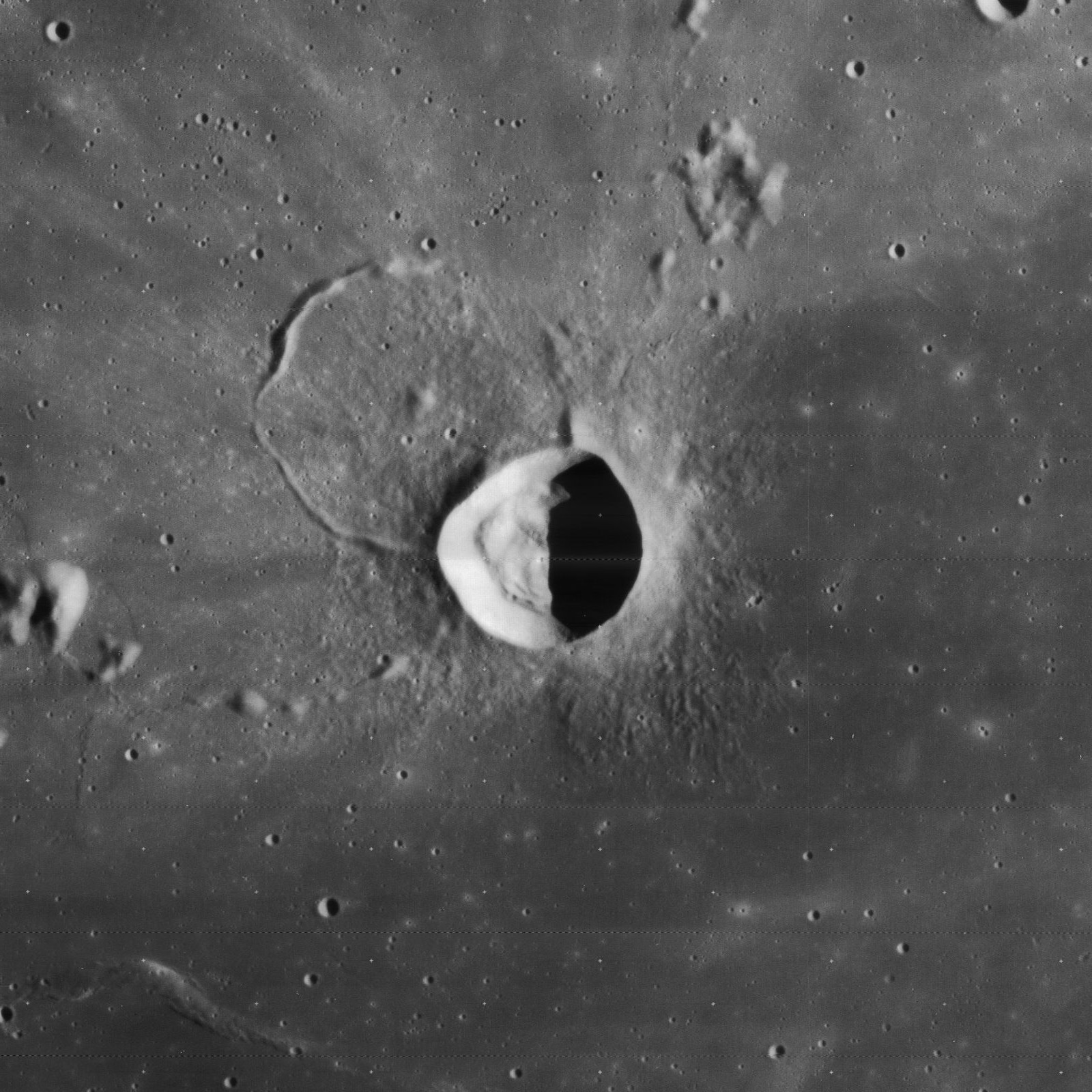 Lichtenberg, on the moon. Note how rays that are visible in upper left are covered by dark mare lava in lower right. The submerged crater to the northwest is apparently unnamed.